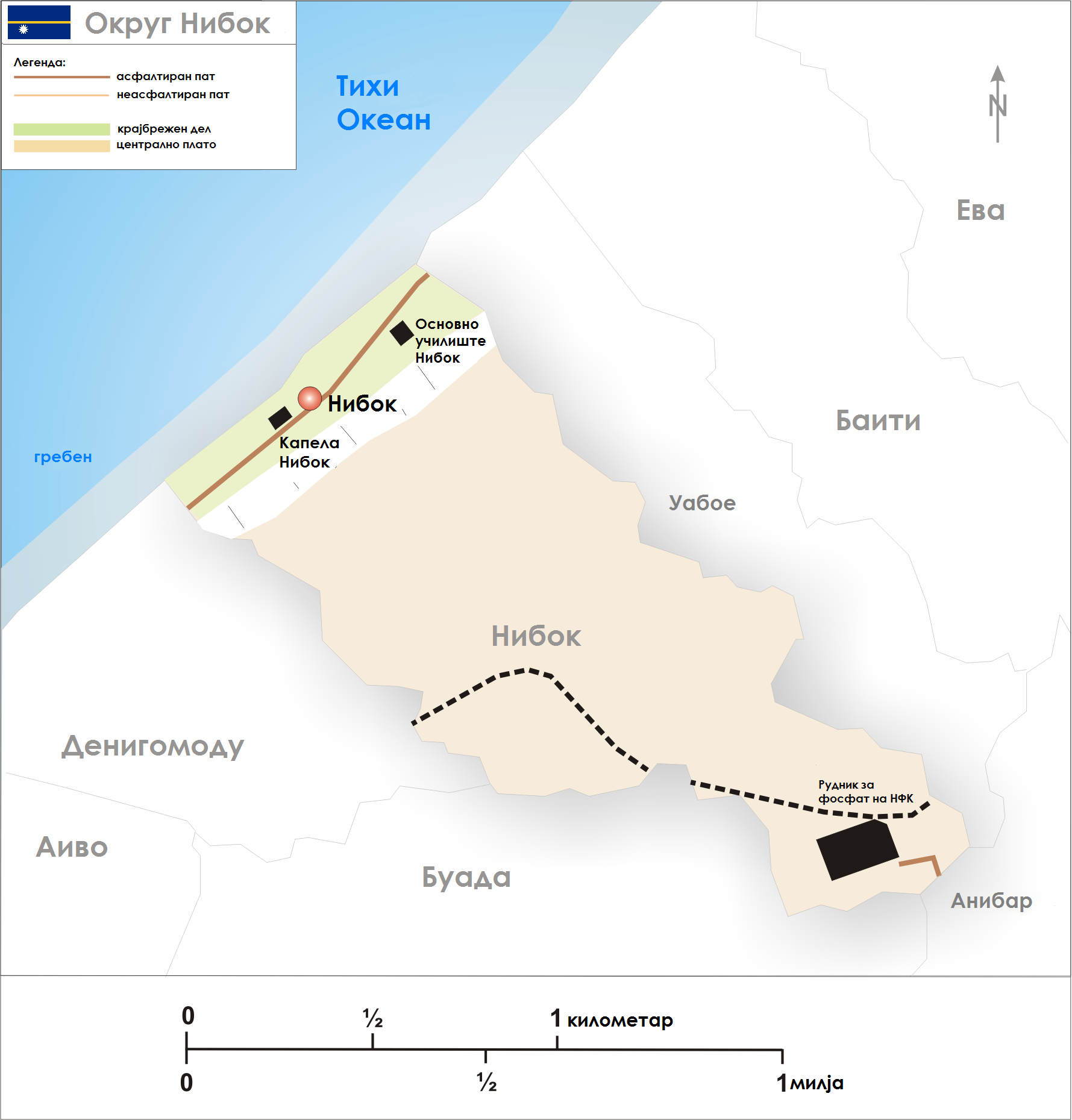 Map of Nibok Districst, Nauru.